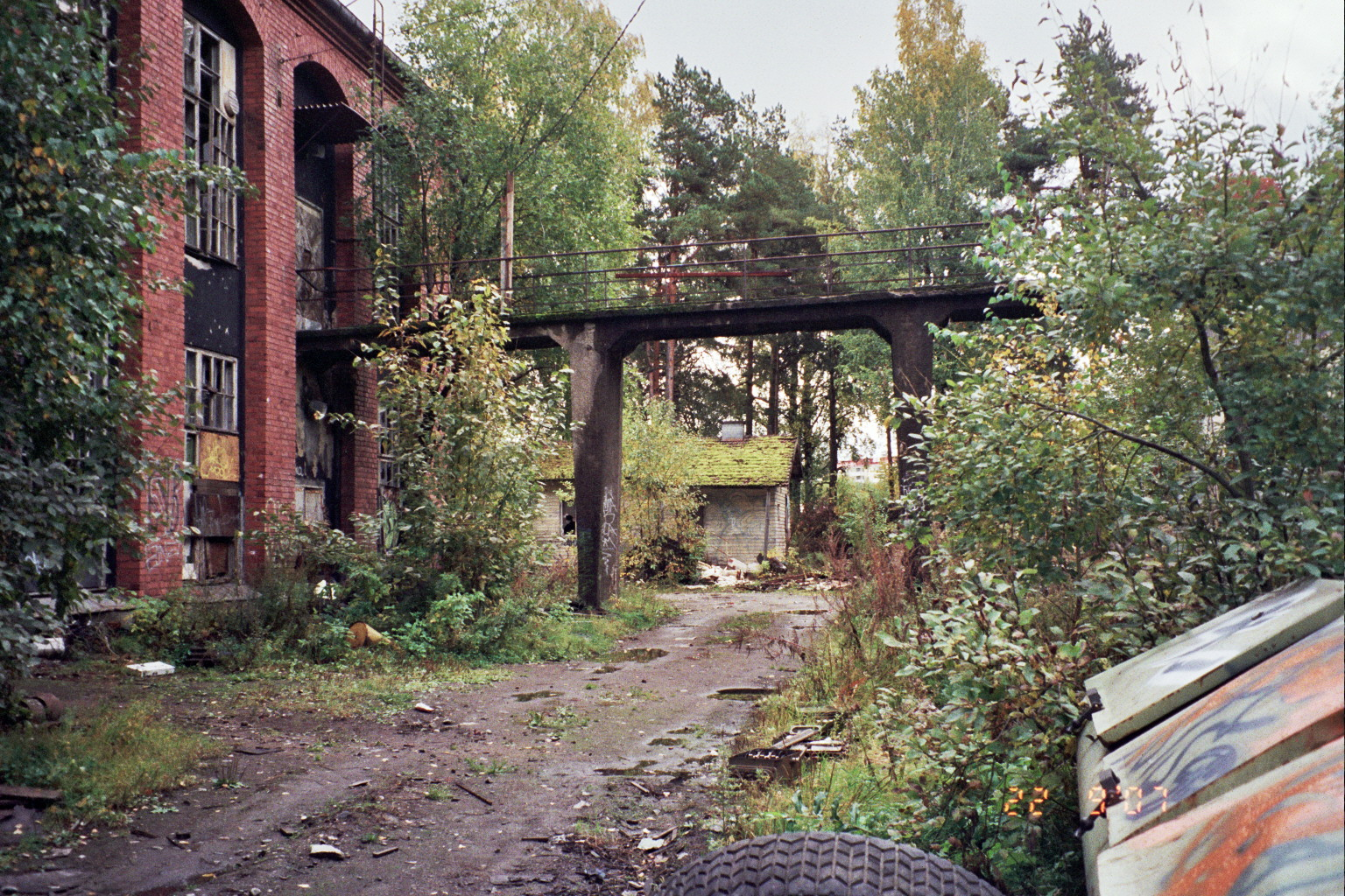 A former match factory in Santalahti, Tampere, Finland.